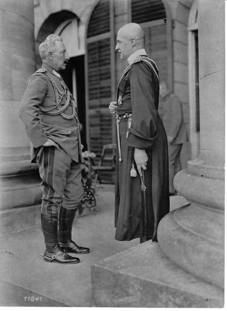 Wilhelm II, German Emperor & Hetman of Ukrainian State Pavel Skoropadsky (right) at Spa in August 1918